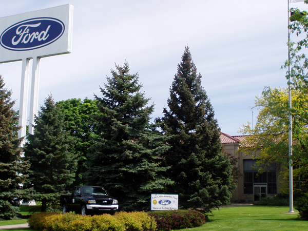 Taken 2006 from the Mississippi side of the plant, main admin entrance